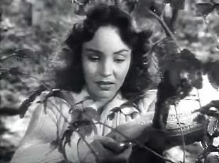 Cropped screenshot of Jennifer Jones from the trailer for the film Love Letters